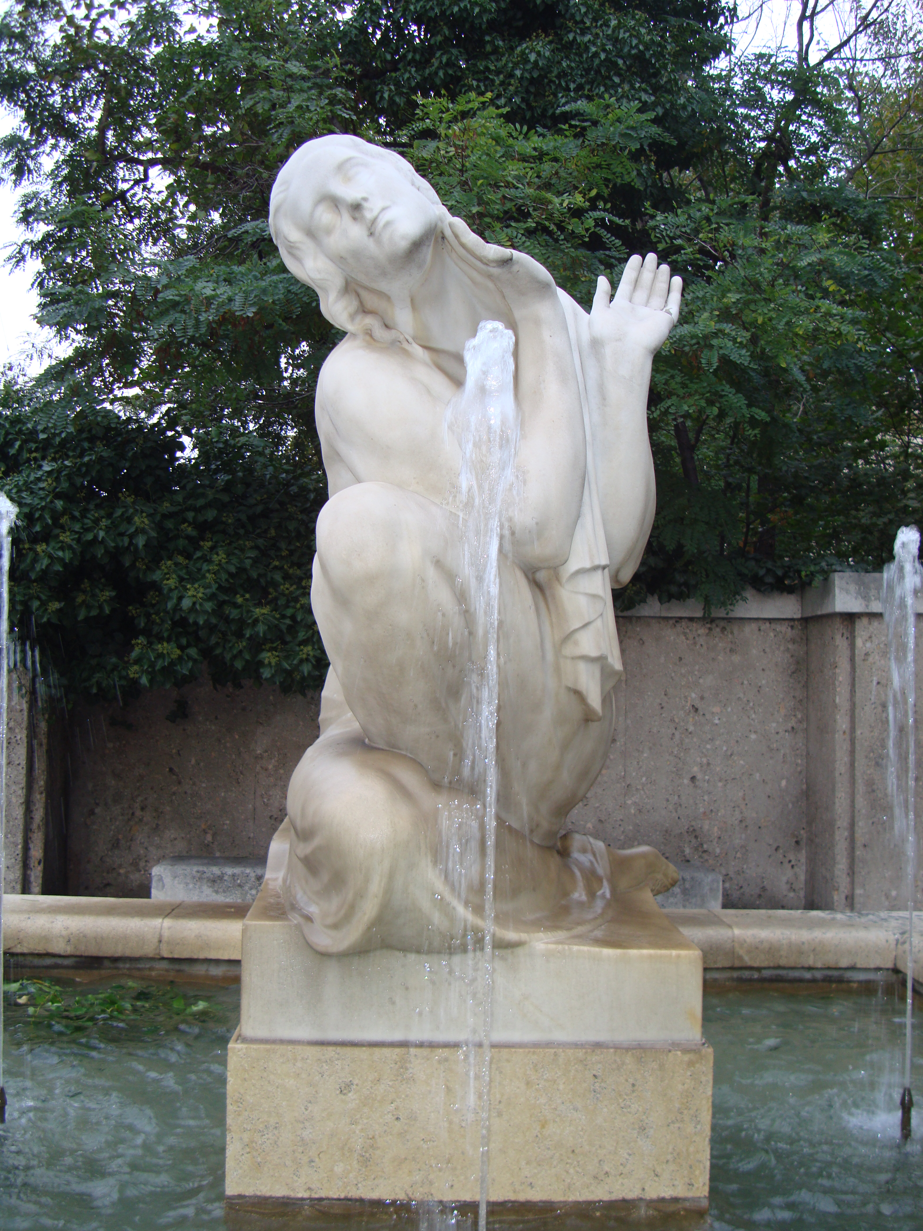 Schubertbrunnen5